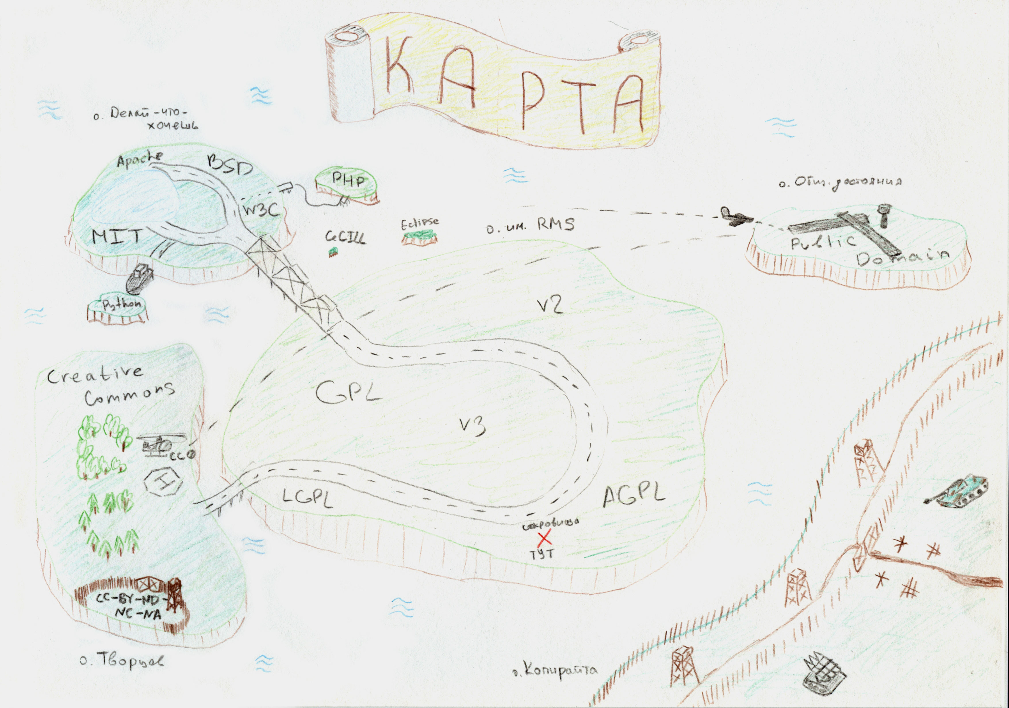 Open licenses map